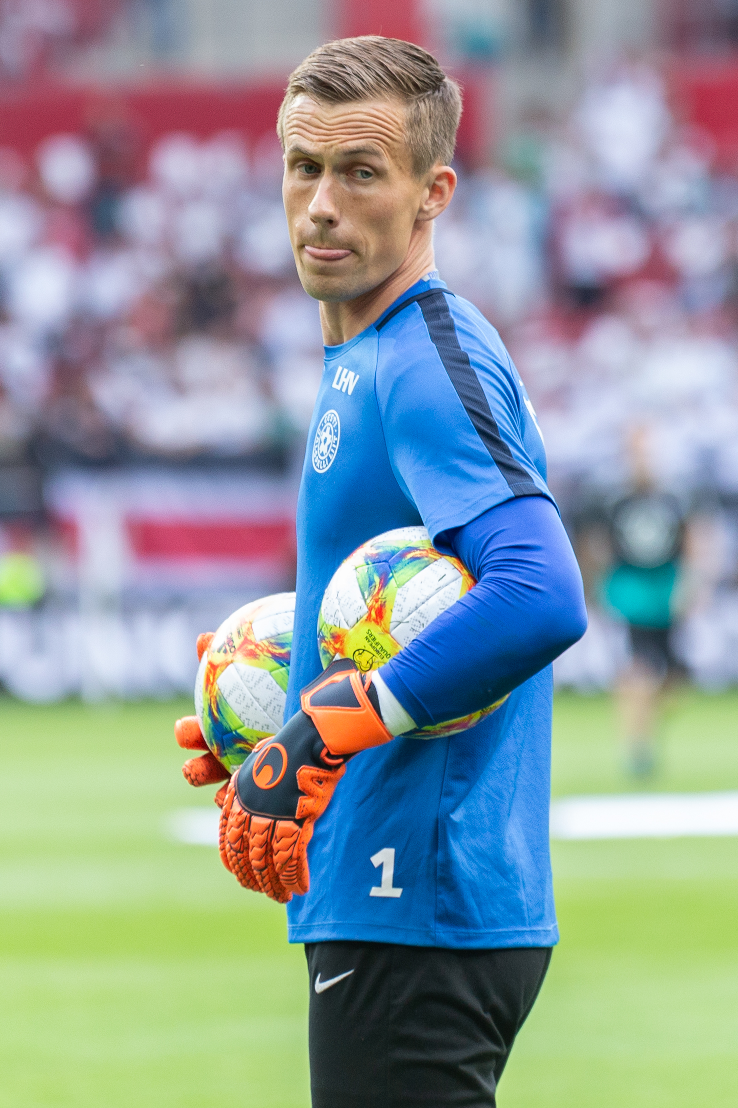 UEFA Euro 2020 qualifier Germany-Estonia